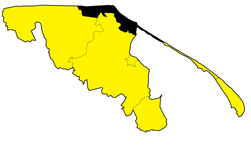 administrative division of pucki (Puck) poviatship - gminas - Władysławowo gmina Author: Krzysztof Created with Inkscape